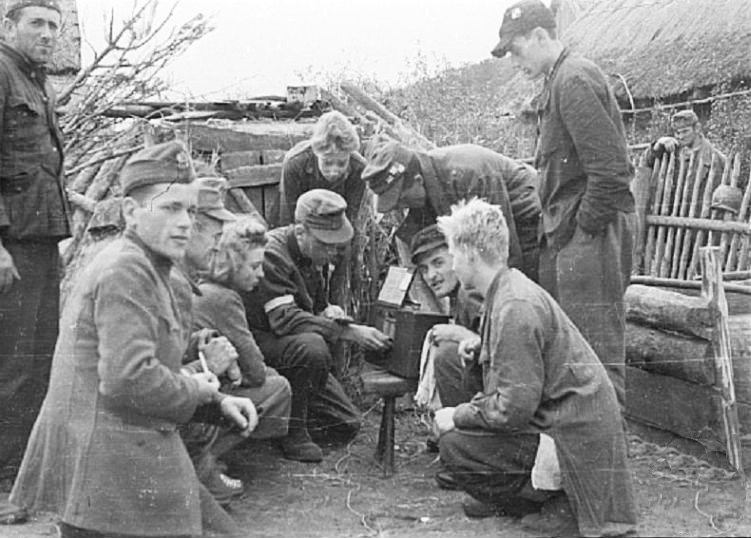 Kampinos Regiment during Warsaw Uprising